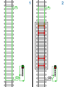 Track circuit